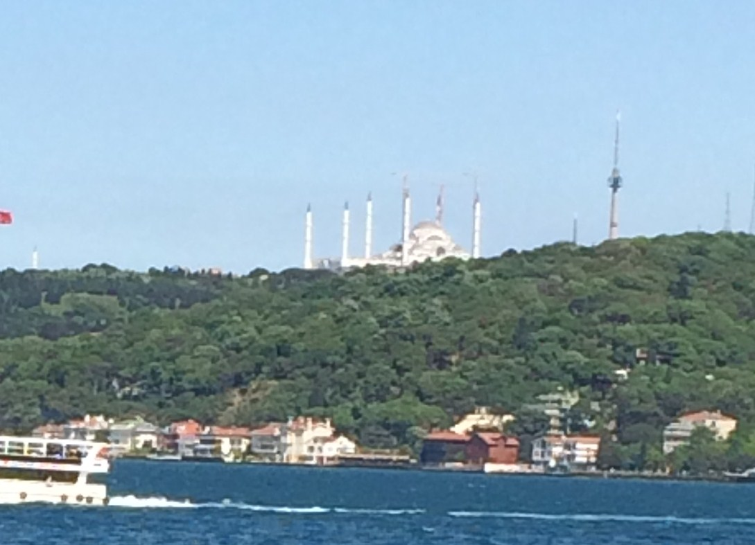 Çamlıca Mosque construction May 2017